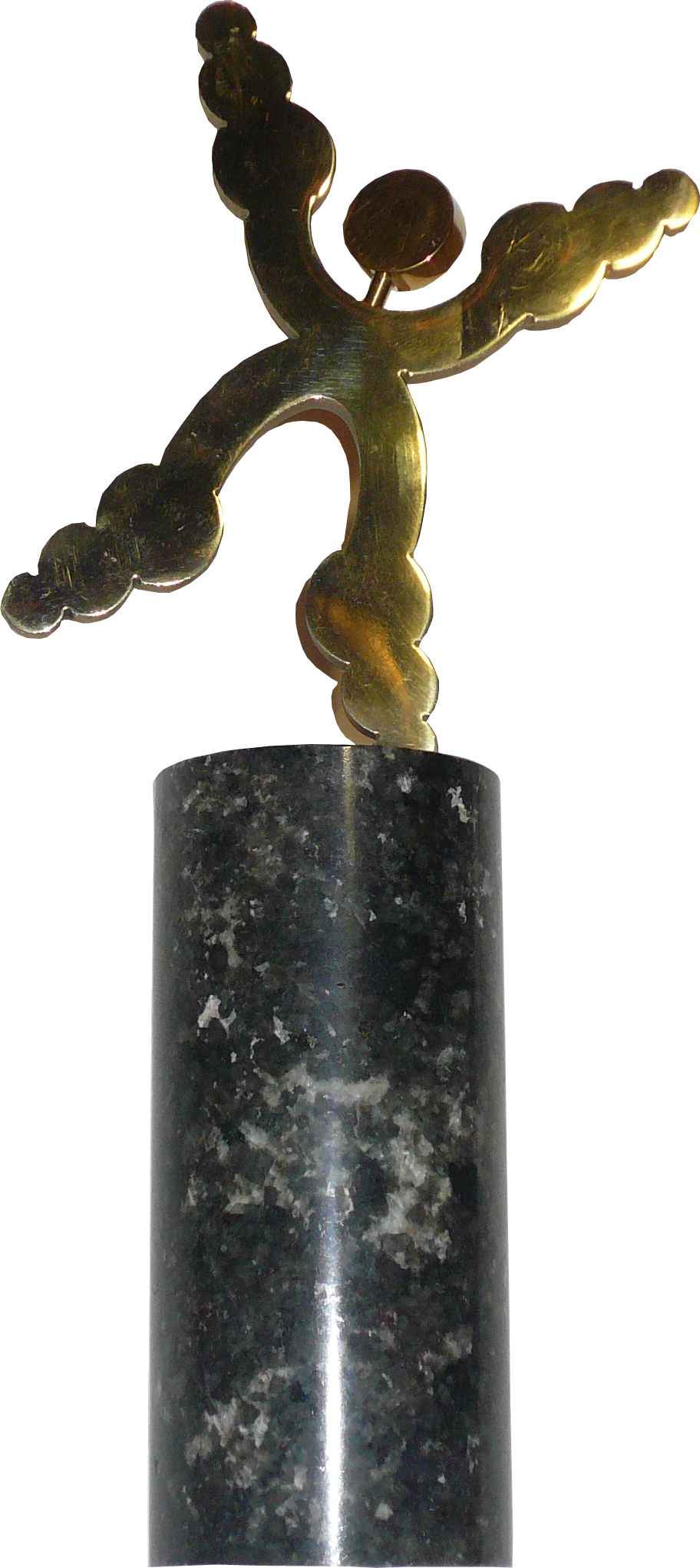 The "Golden Site" award.